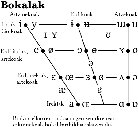 Ipa-chart-vowels-(translated into basque)